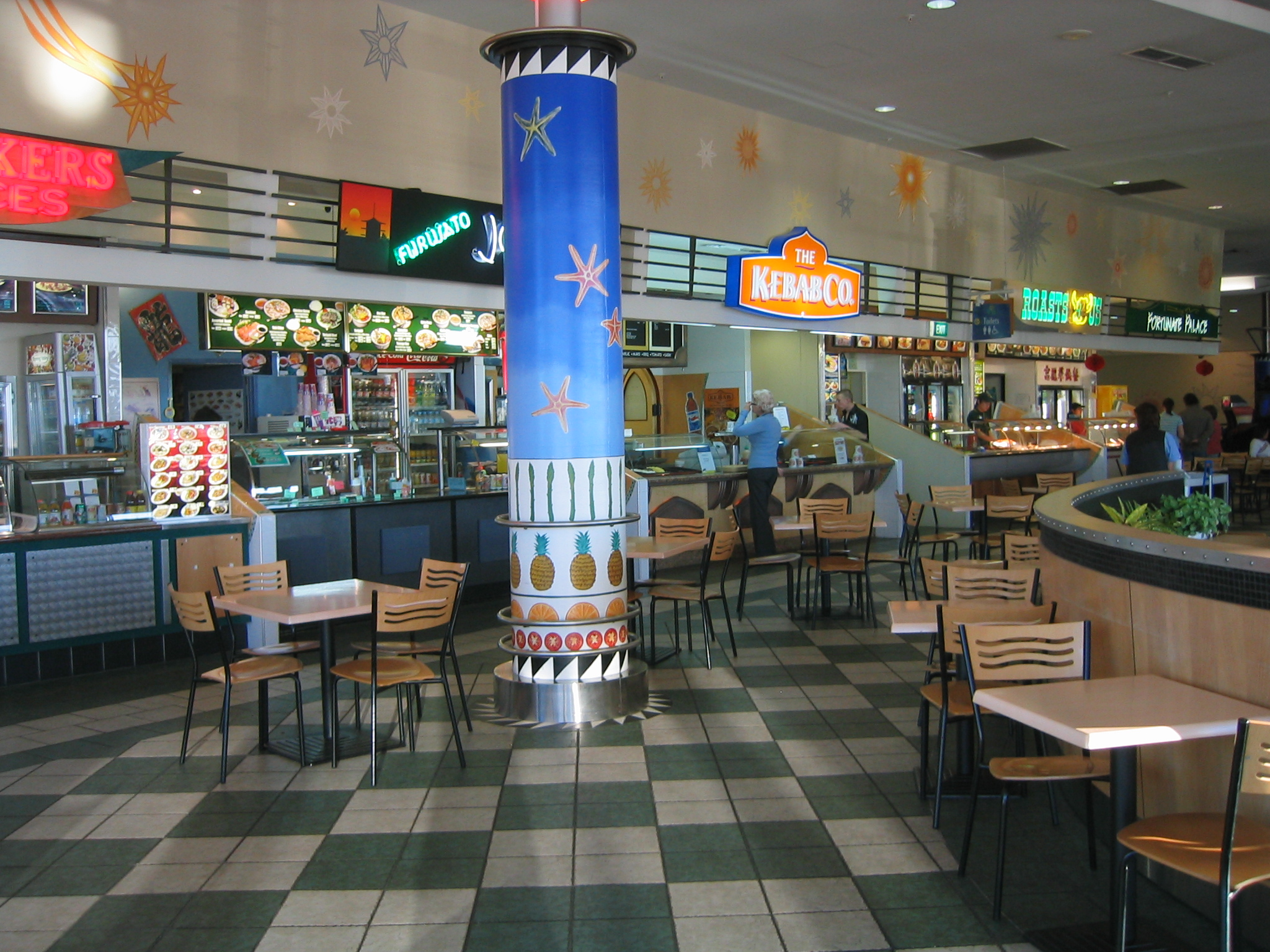 The Terrace Food Court of the Southlands Boulevarde